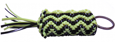 Yellow Boondoggle